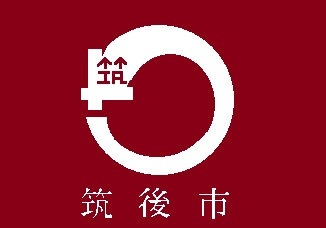 Flag of Chikugo Fukuoka